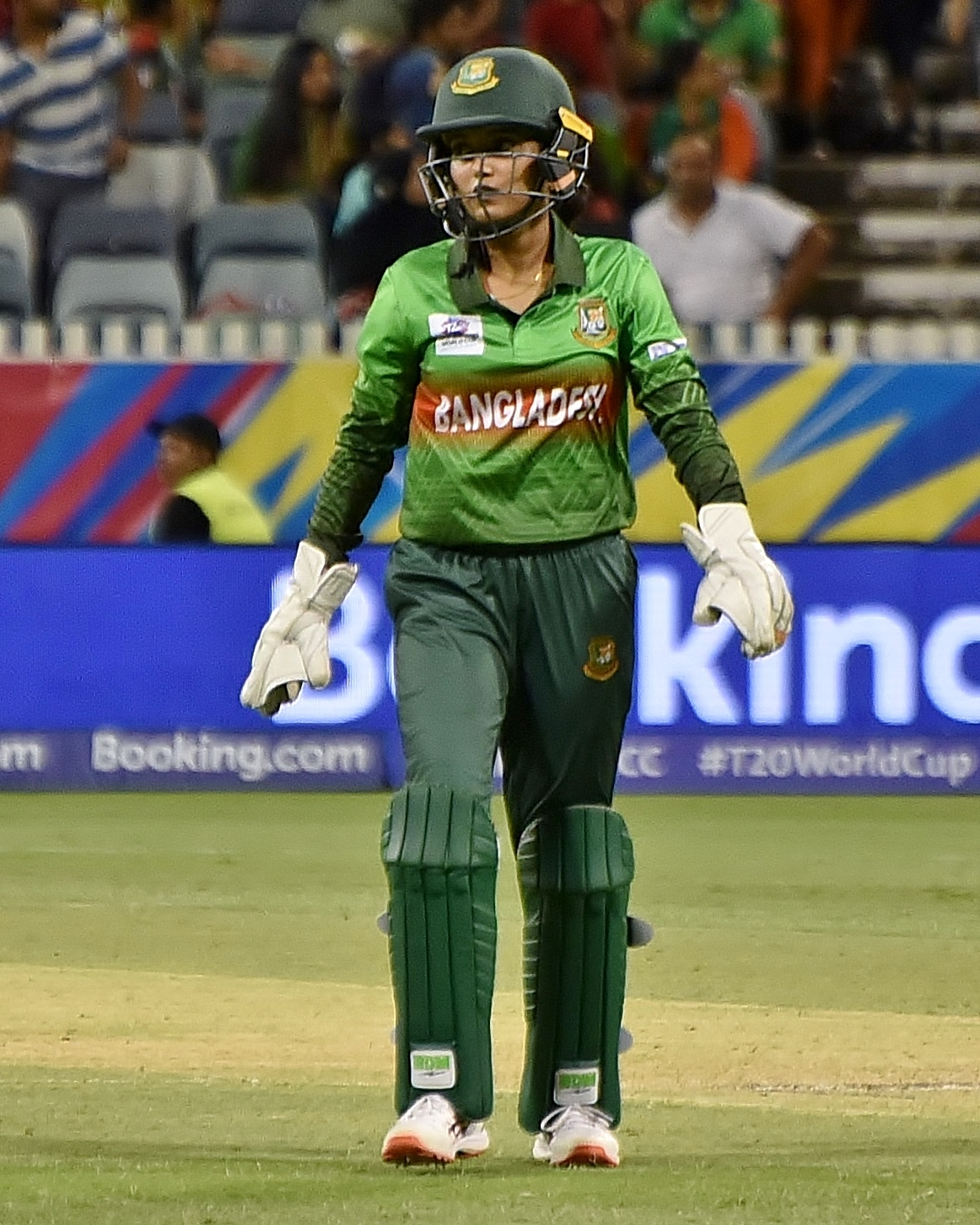 Nigar Sultana playing for Bangladesh against India during their 2020 ICC Women's T20 World Cup match at the WACA Ground in Perth, Australia